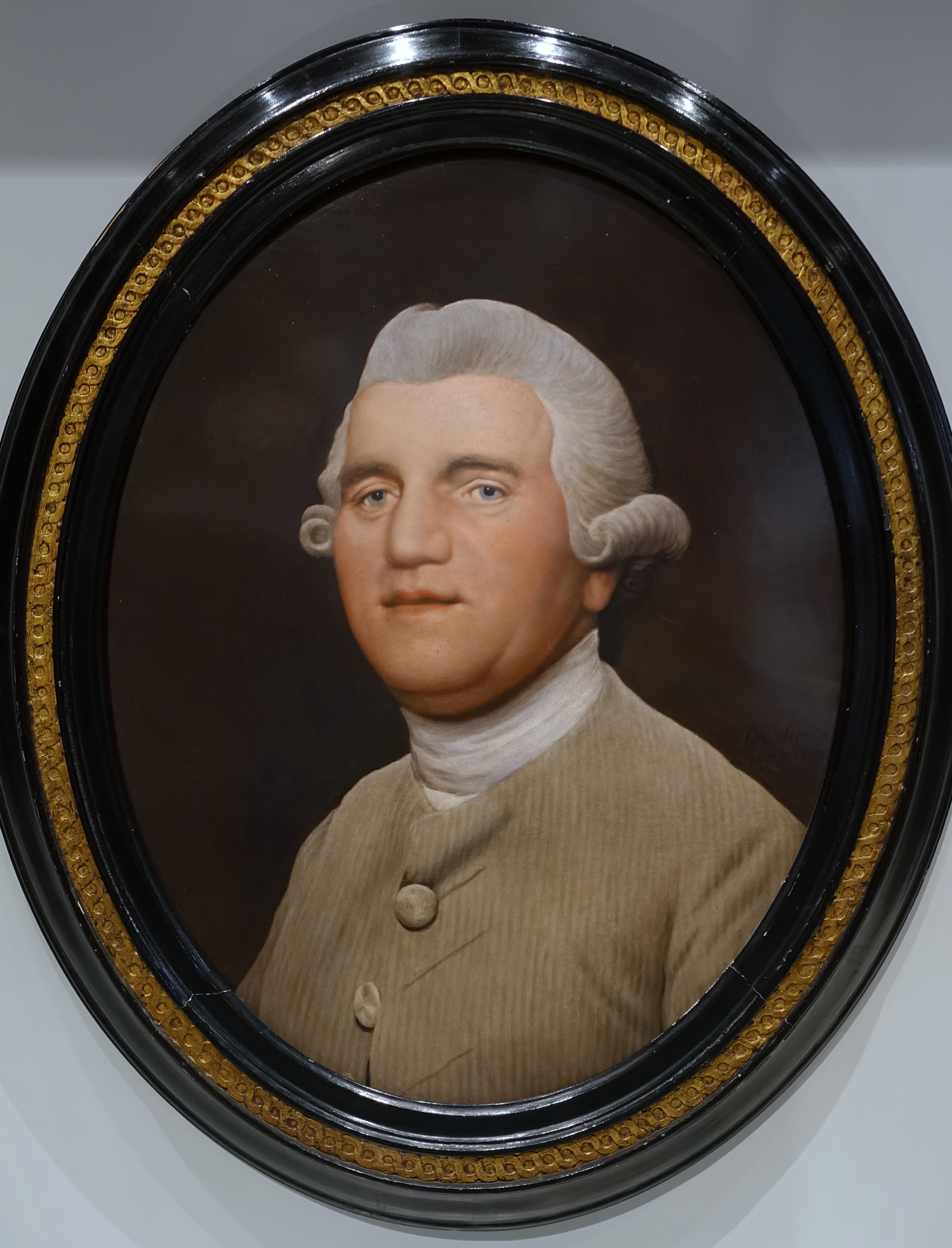 Exhibit in the Wedgwood Museum - Barlaston, Stoke-on-Trent, England.